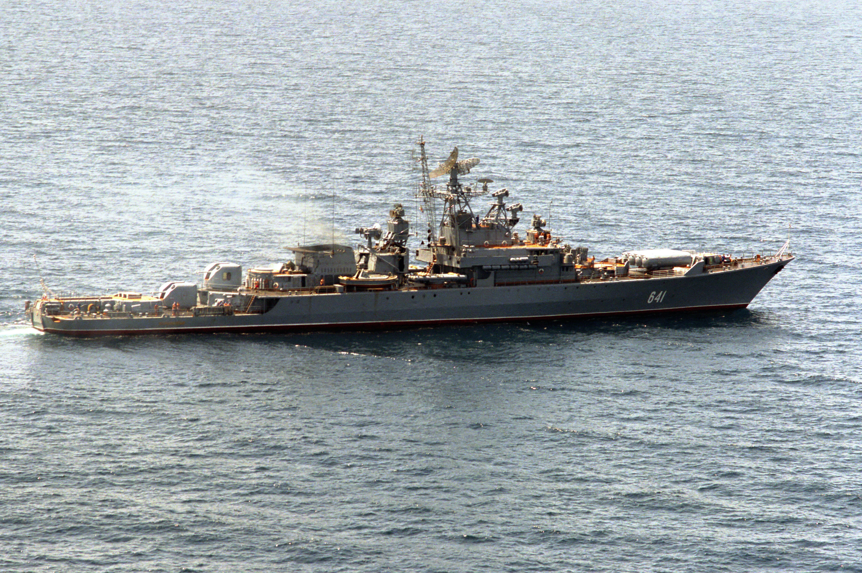 A starboard view of a Soviet Krivak I class guided missile frigate underway.